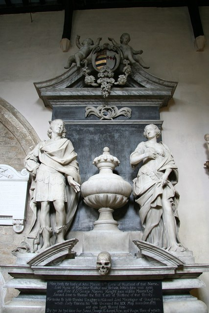 Monument by Grinling Gibbons to John Manners, 8th Earl of Rutland (died 1679) and his wife Frances Montagu, daughter of Sir Edward Montagu, 1st Baron Montagu of Boughton. St Mary the Virgin parish church, Bottesford, Leicestershire